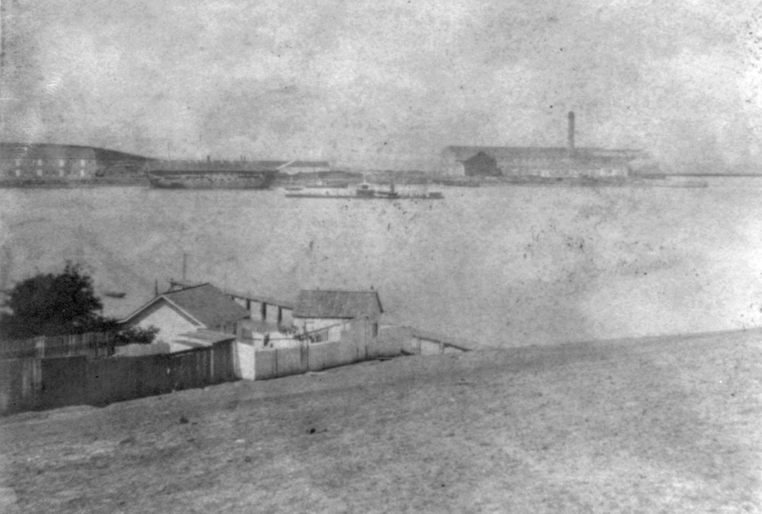 The U.S. Navy monitor USS Camanche at the Mare Island Naval Shipyard, Solano County, California (USA), in 1866.